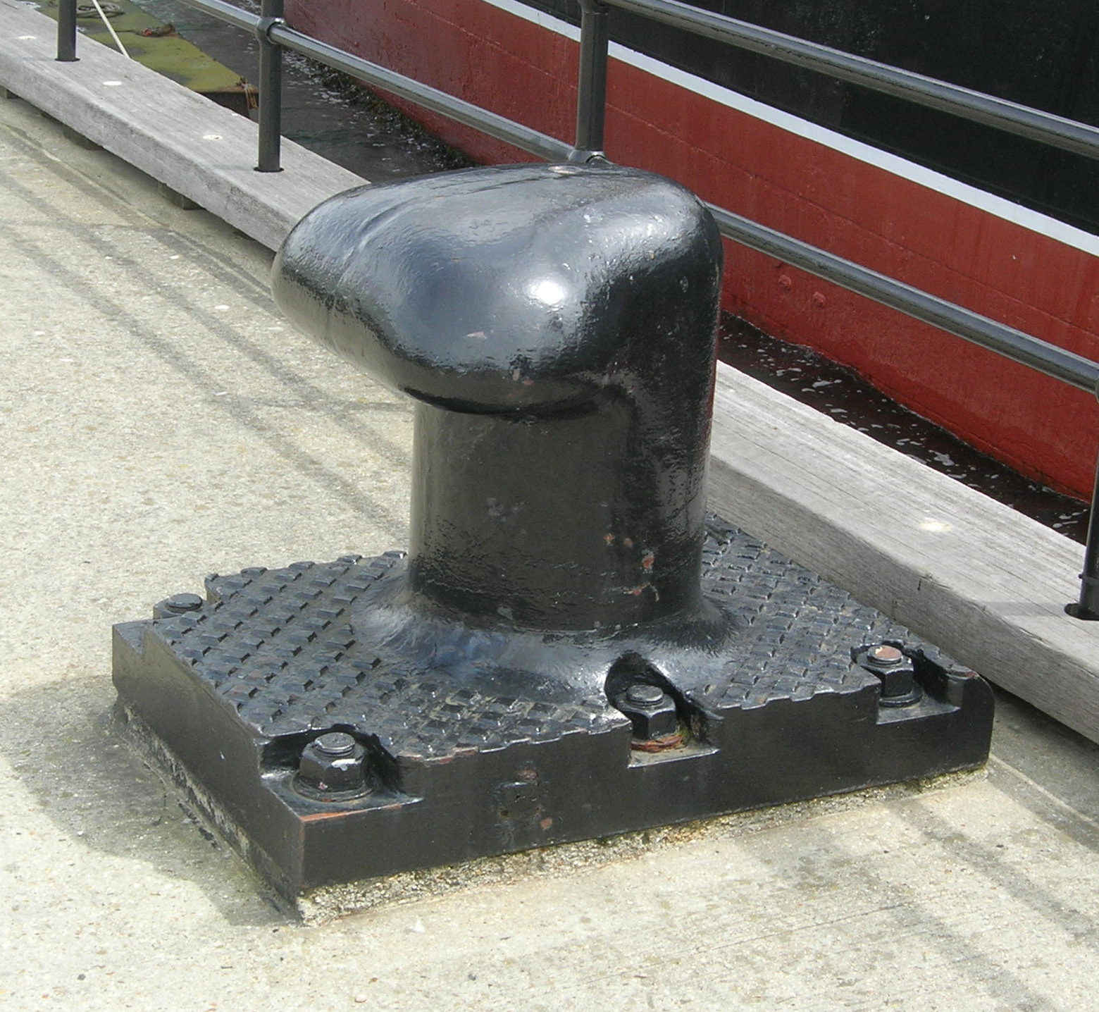 Description =Bitte d'amarrage a Portsmouth Source =Photo taken by Remi Jouan Date =Mai 2006